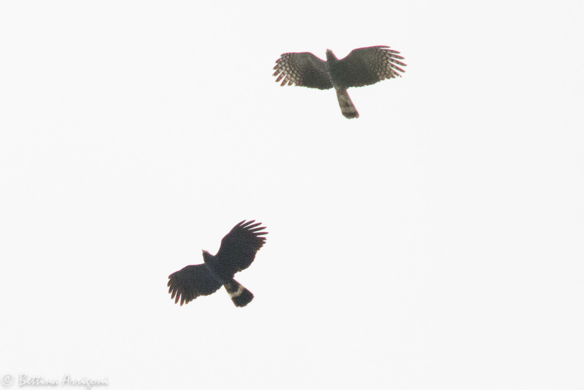 initially thought Zone-tailed and Hook-billed Kite but indicated dark morph HBKI from Rio Grande Birding forum